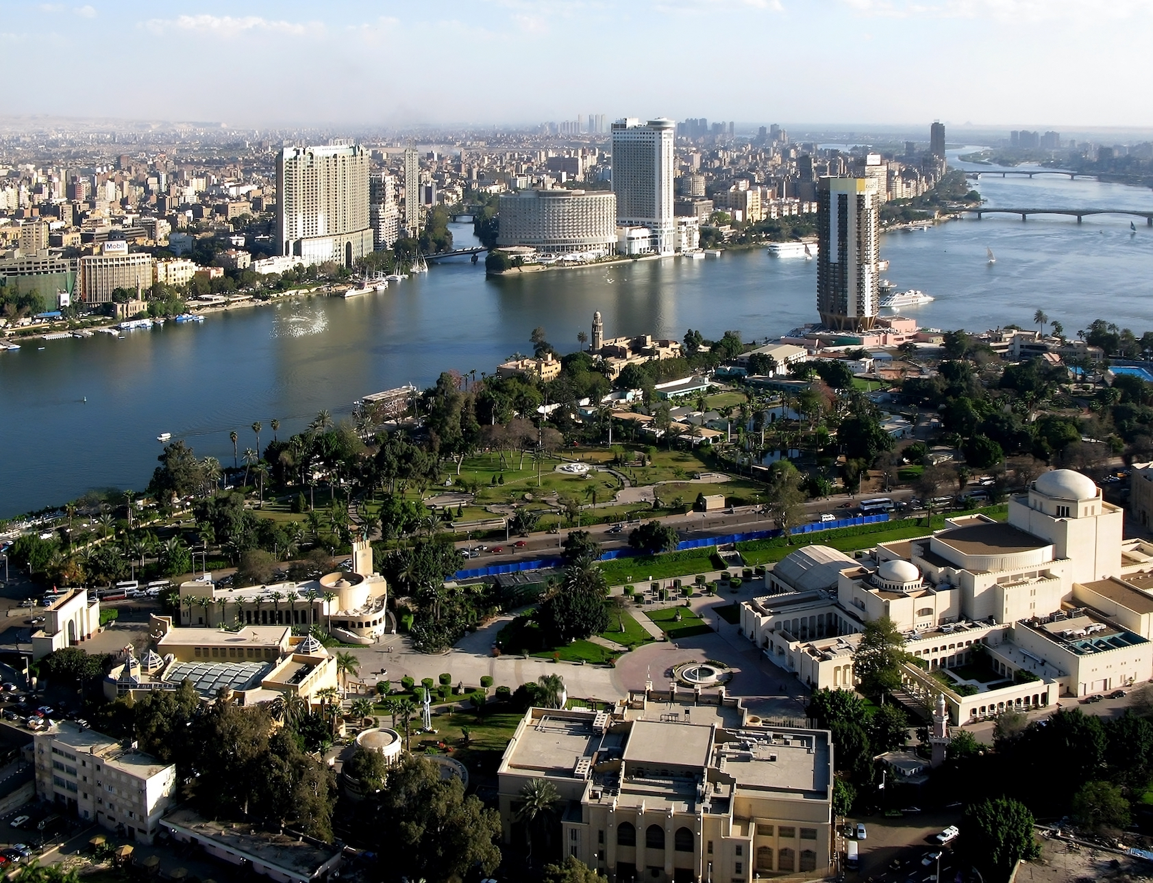 View from Cairo Tower